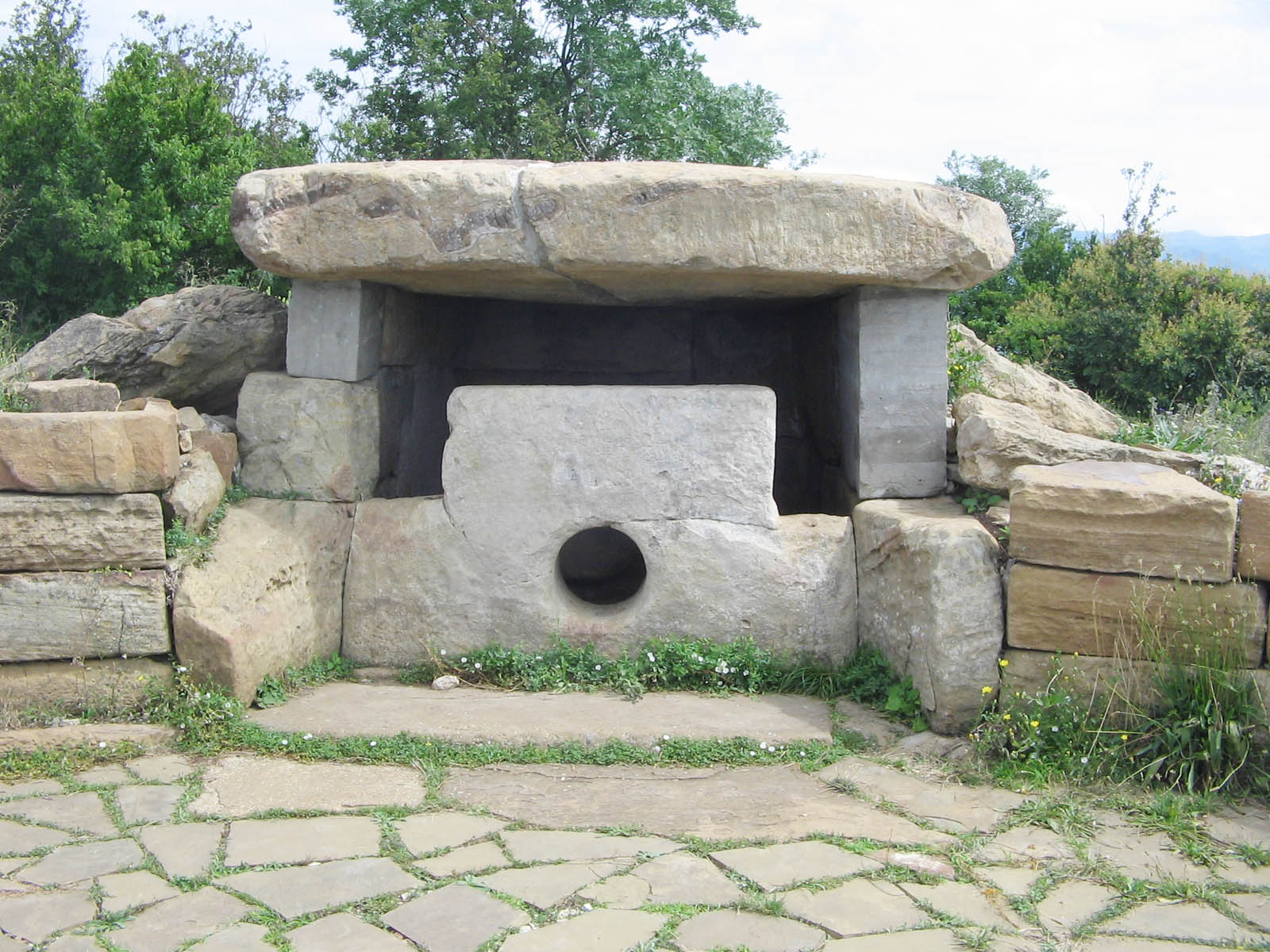 Dolmen on Mount Nexis near the town of Gelendzhik. The dolmen is called "Luna"(Moon). Photo in high resolution, you can see that the walls of stacked rectangular dolmen, and g-shaped stone blocks. Two bluish blocks are made of concrete, installed during the restoration with the aim of supporting the roof of the dolmen.